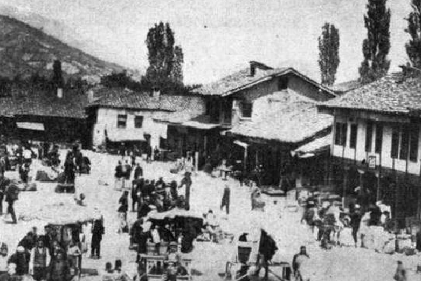 Market square